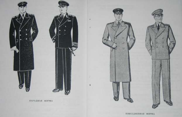 Official regulations concerning Soviet diplomatic uniforms, 1943.